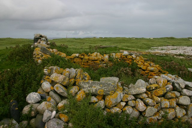 House remains on the Monachs Remains of a former house on Ceann Iar, one of the Monach Islands. The last inhabitants vacated the islands in 1942.